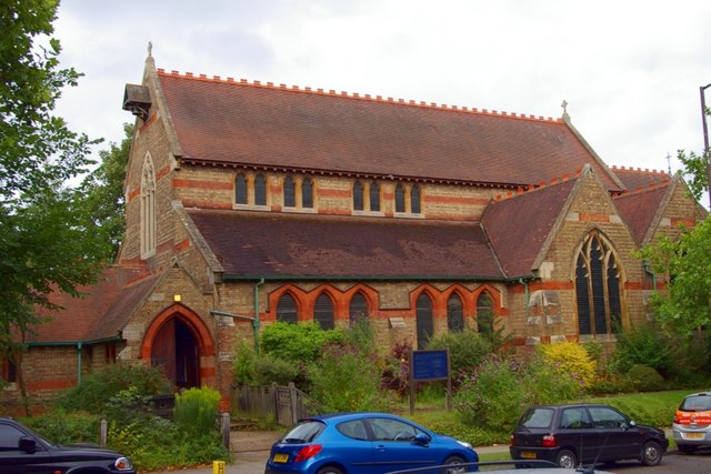 St Martin's parish church, Clapham Road, Bedford, England, seen from the southwest